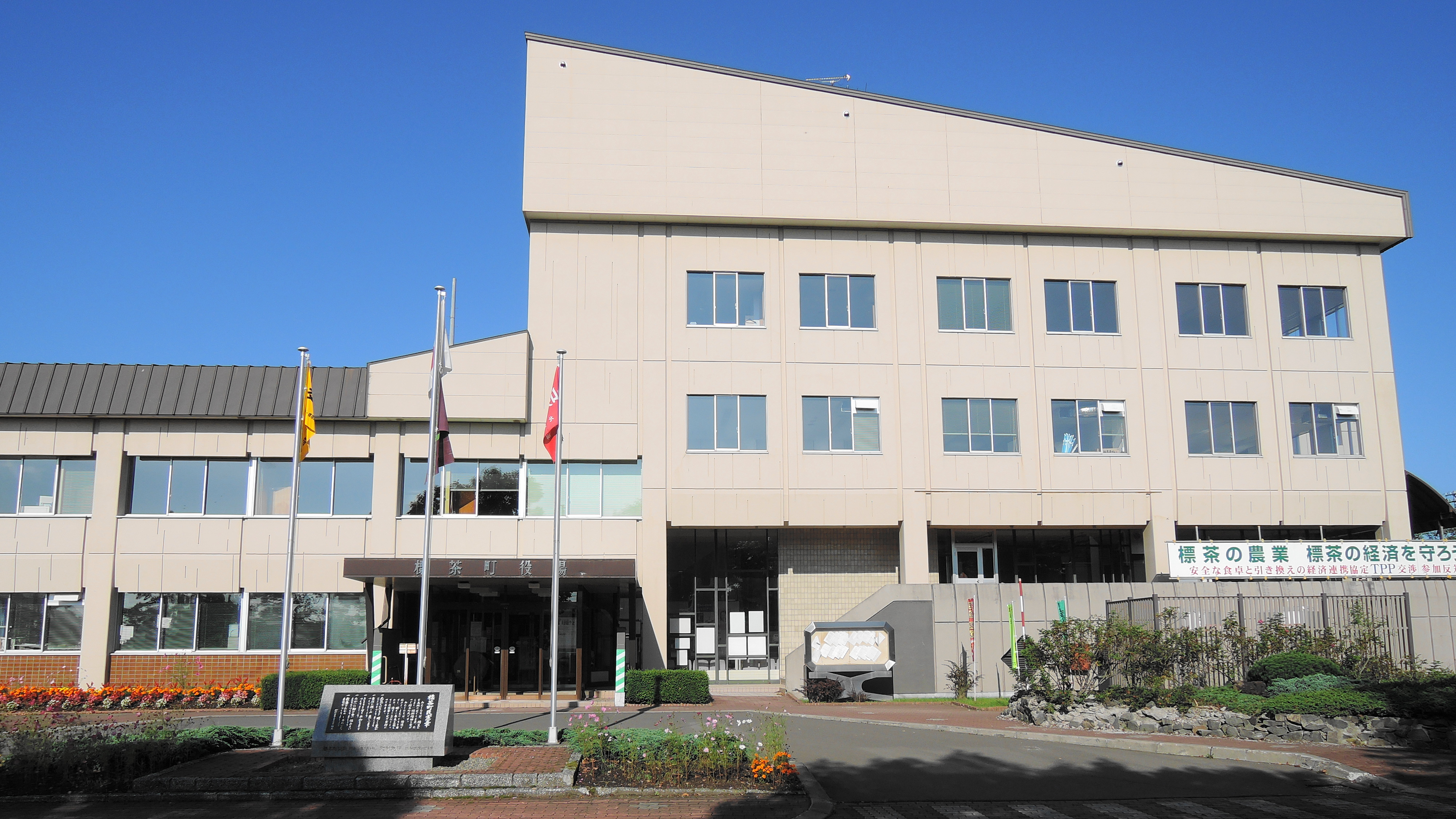 Shibetya town hall,Hokkaido prefecture,Japan